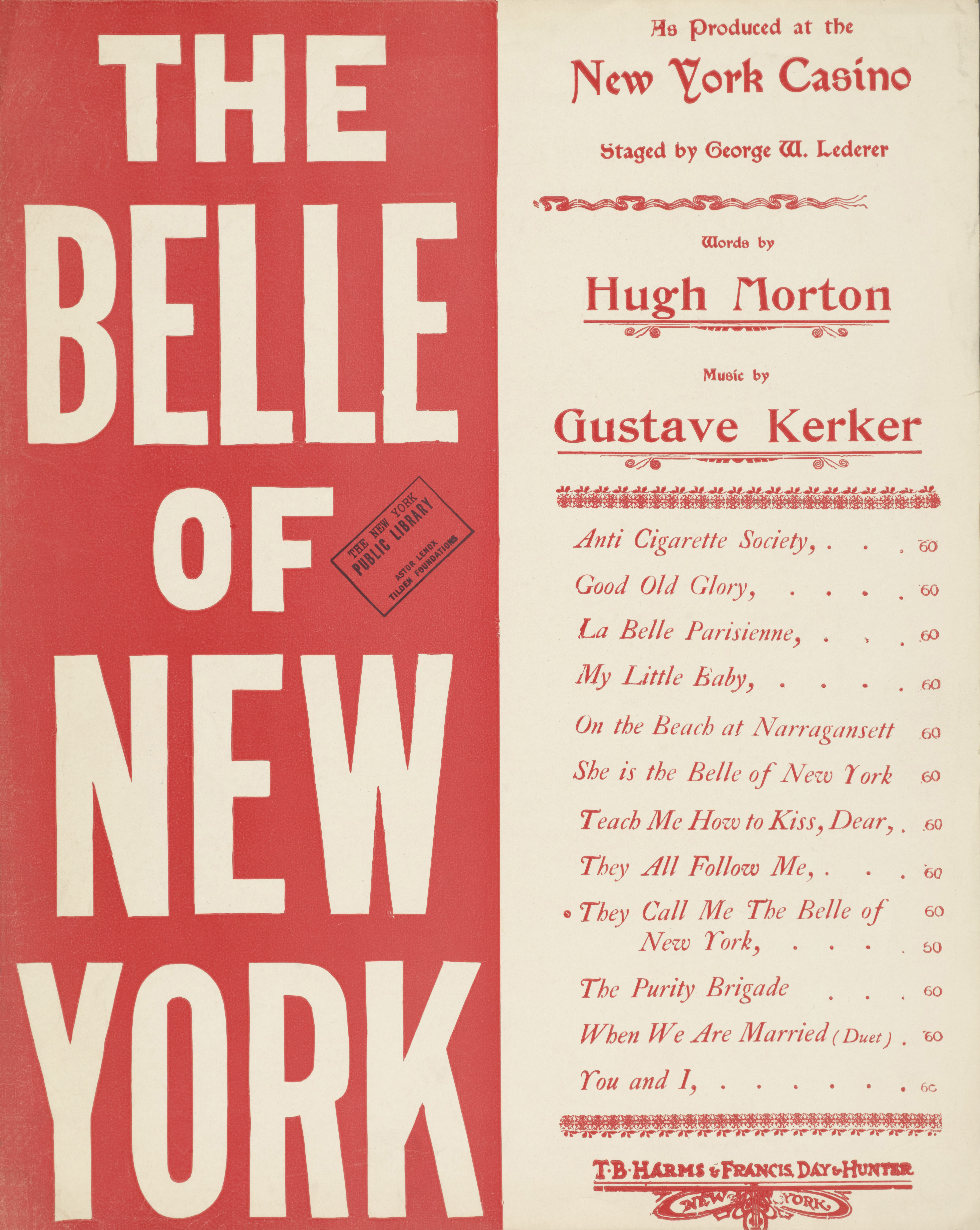 Front cover of the sheet music for "They Call Me the Belle of New York" from the Broadway musical revue The Belle of New York